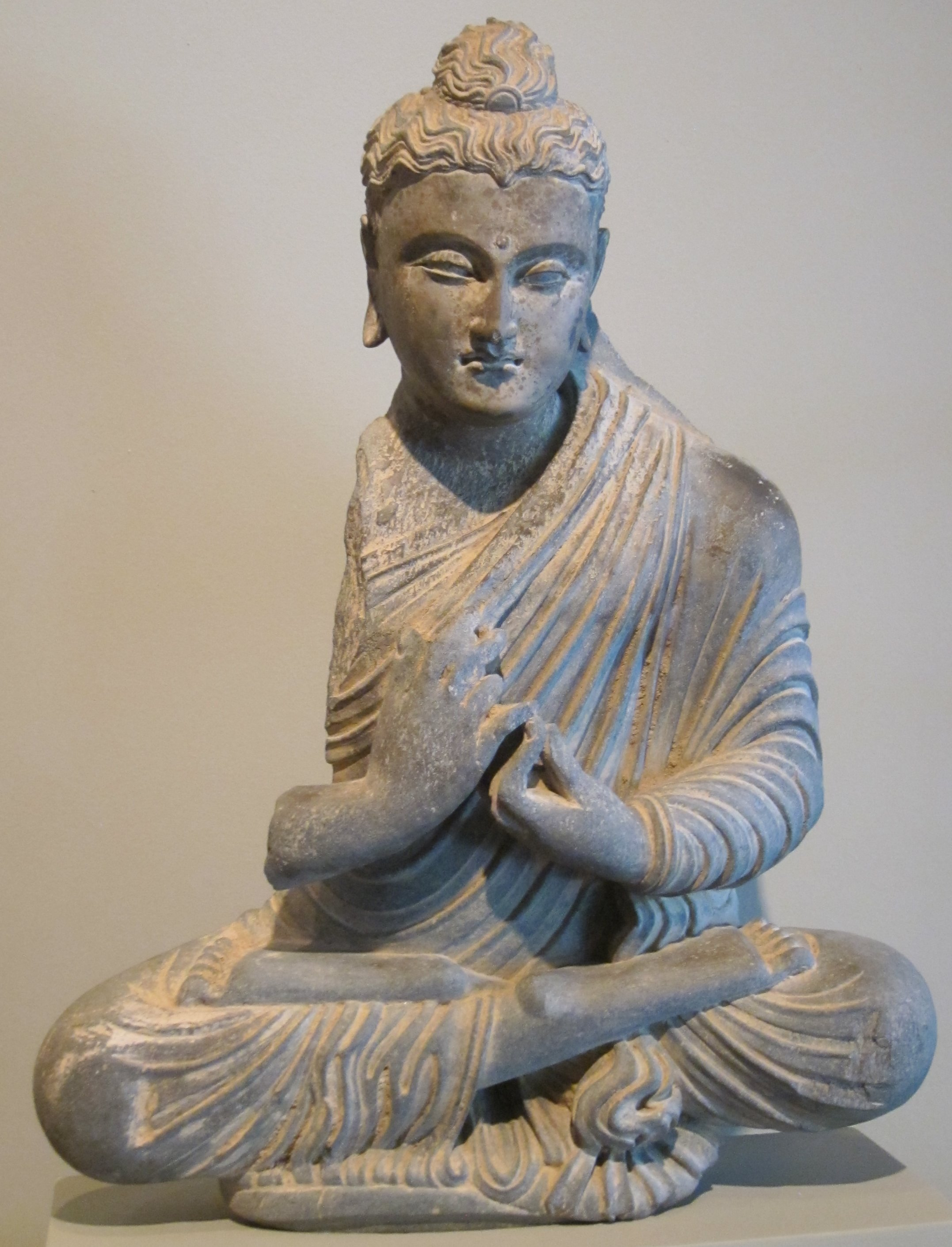 Seated Buddha, Pakistan or Afghanistan, Ghandhara region, 2nd - 3rd century CE, gray schist, Honolulu Academy of Arts